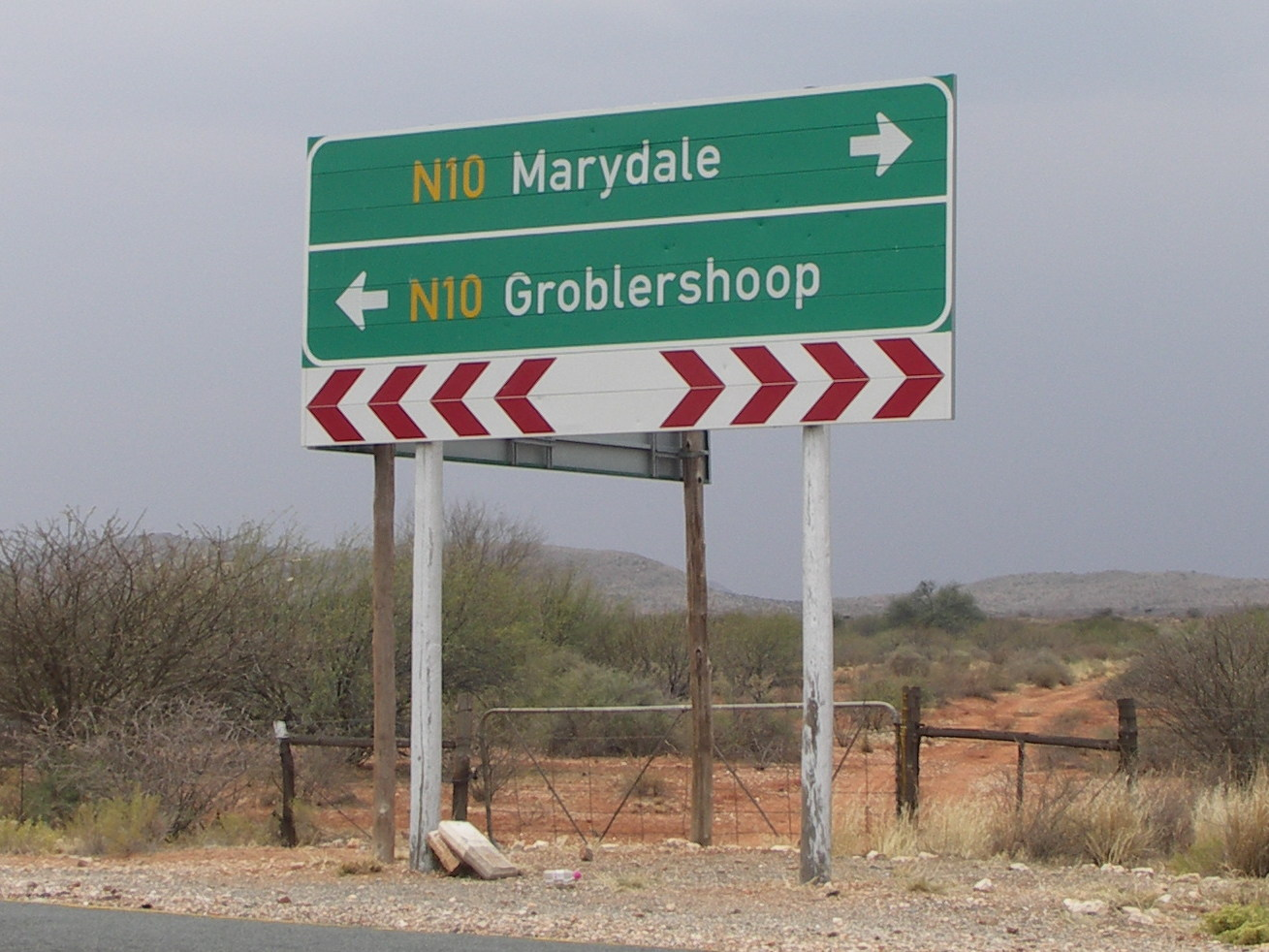 Roadsign on the N10 in the Northern Cape, South Africa